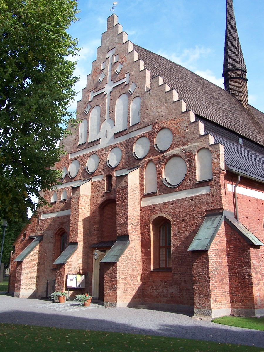 Sankt Laurentii church, Söderköping, Sweden